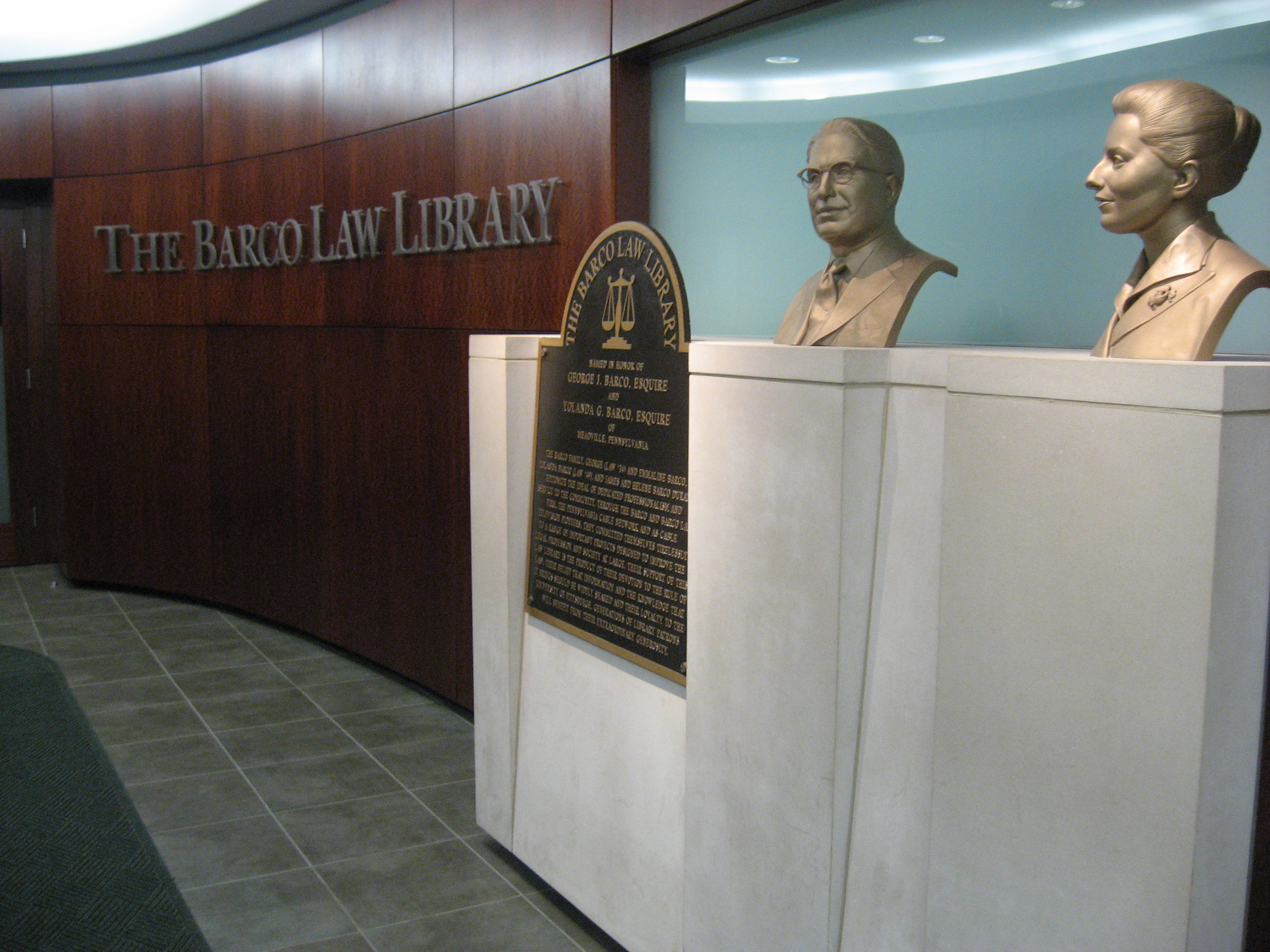 Entrance to the Barco Library at Barco Law Building of the University of Pittsburgh School of Law 40°26′30.9″N 79°57′20.5″W / 40.441917°N 79.955694°W